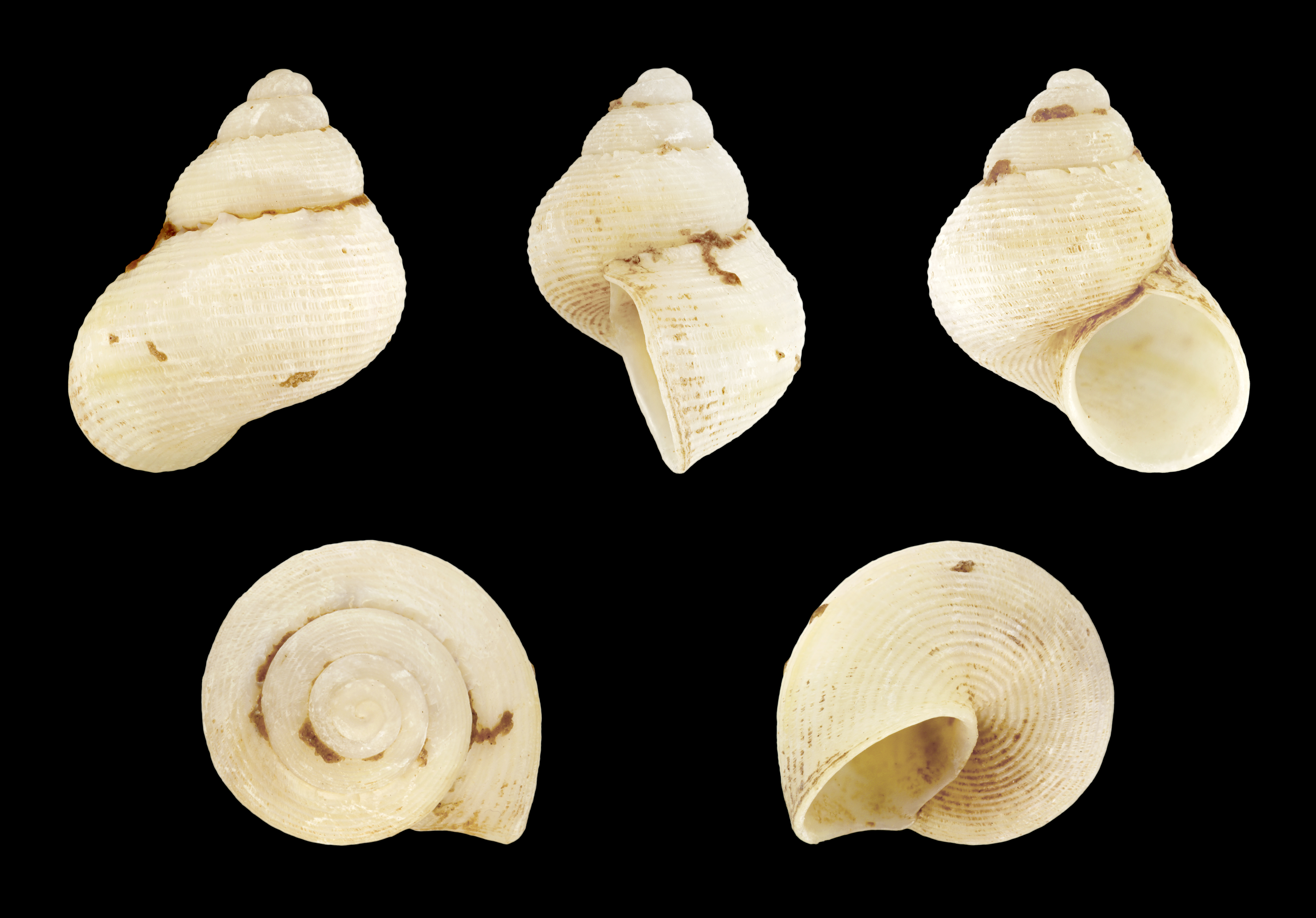 Pomatias canariensis (D'Orbigny, 1840); Length 1.5 cm; Quarternary sediments near La Lajita, Fuerteventura, Canary Islands, Spain 28°11′3.34″N 14°9′55.04″W / 28.1842611°N 14.1652889°W; Shell of own collection, therefore not geocoded.